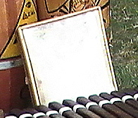 This is a drum from Nigeria traditionally used to play Ashiko (aṣíkò) music.